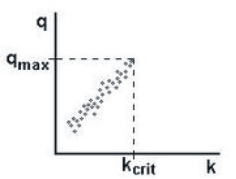 Part of the "fundamental diagram": the flow and the density on a road show a positive relationship.